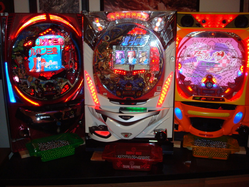 Three modern pachinko machines. (Left to Right) Lupin the Third, Fist of the North Star, and Cutie Honey.